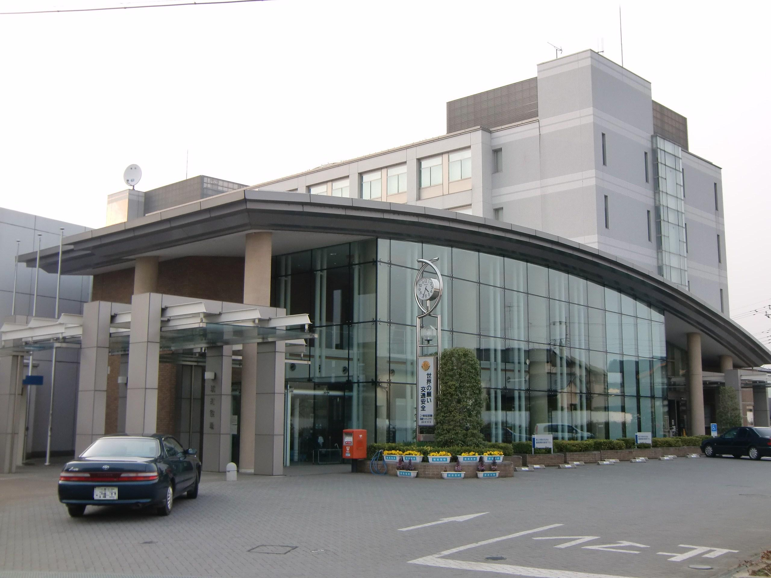 Sakai town (Sashima-county, Ibaraki-pref, JAPAN) office building.